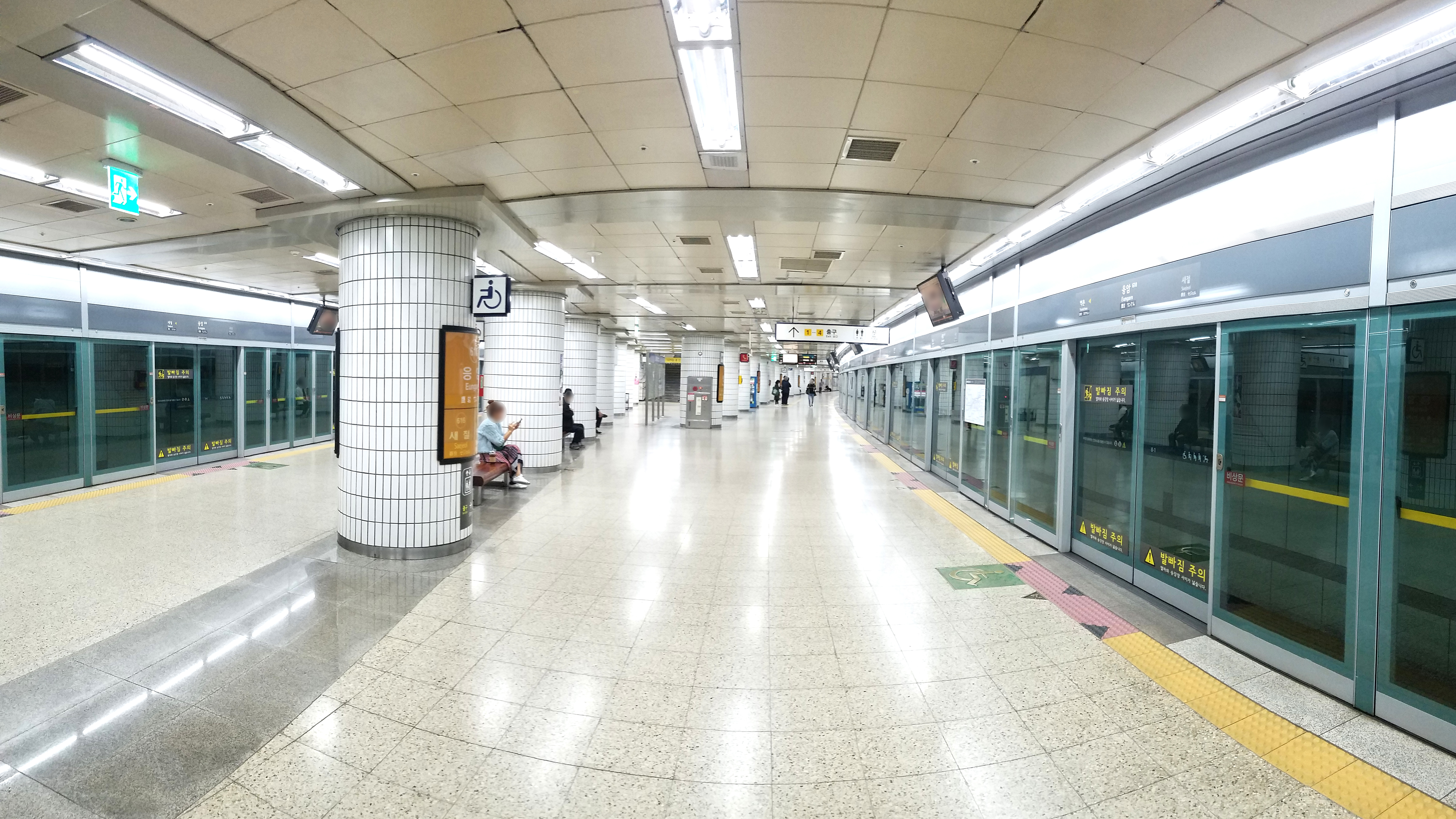 The platform at Eungam Station on Seoul Subway Line 6 in Eunpyeong-gu, Seoul, Republic of Korea(South Korea)